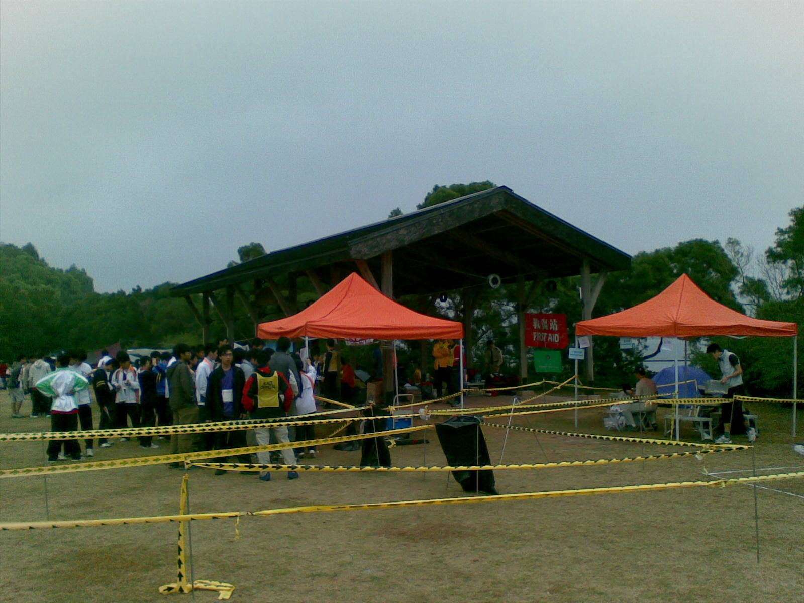 South campsite in the penninsula of Wan Tsai, Sai Kung on 2007-12-23. The Hong Kong Youth Orienteering Championships were being held at that time.